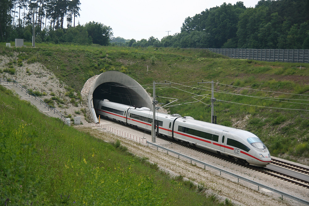 An ICE 3 high-speed train leaves the south exit of the Göggelsbuch Tunnel, Nuremberg–Ingolstadt high-speed railway line, headed for Munich